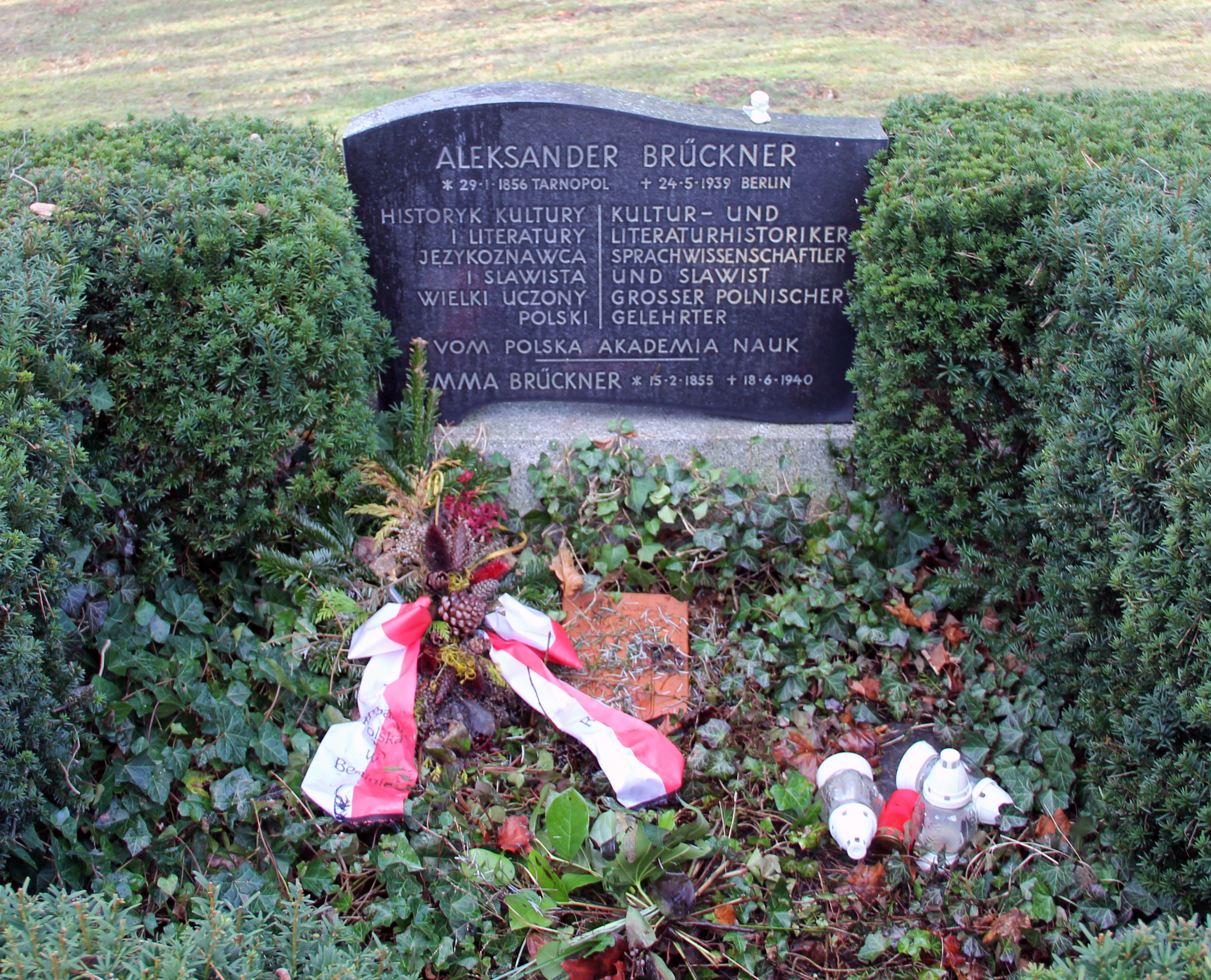 Grave of honor, Aleksander Brückner, Gottlieb-Dunkel-Straße 27, Berlin-Tempelhof, Germany